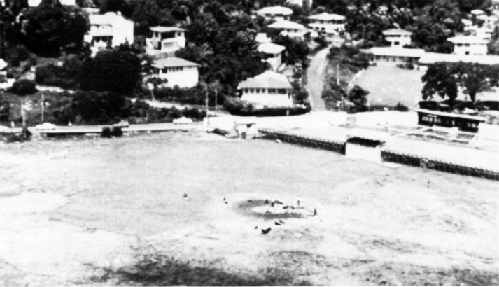 Curious Grenadians inspect ashes and rotor blade that represent the only remains of a U.S. Marine Corps Bell AH-1T SeaCobra, 25 October 1983. The SeaCobra was assigned to Marine medium helicopter transport squadron HMM-261 aboard the USS Guam (LPH-9). During the first day of the invasion of Grenada it was hit during an attack on Fort Frederick and crash landed on a football (US: soccer) field. The pilot, Capt. Jeb F. Seagle was killed after the crash, the co-pilot, Capt. Timothy B. Howard was seriouly wounded, but was rescued.